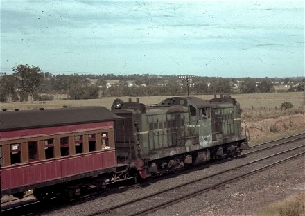 4105 hauls a special Via Crucis train towards Campbelltown, Easter 1961